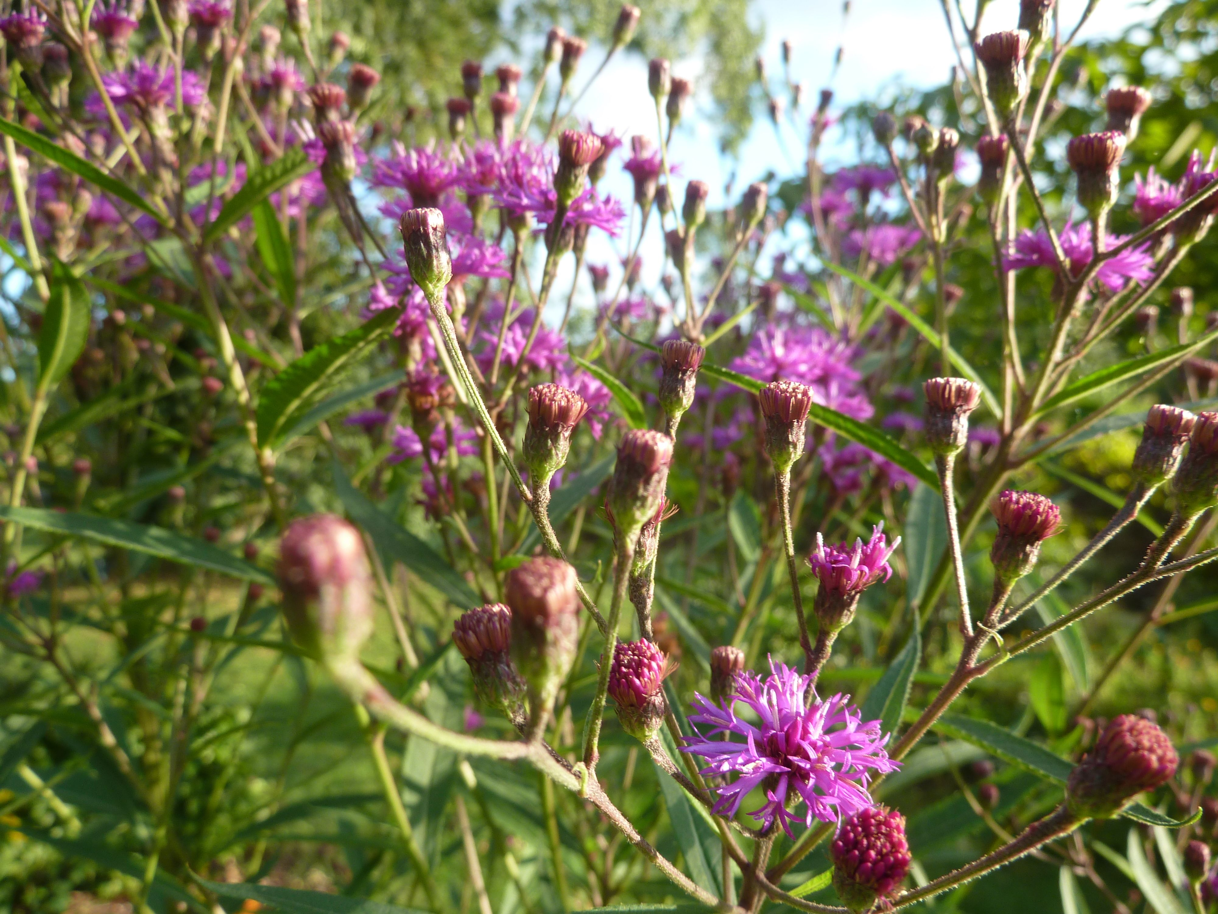 Ironweed